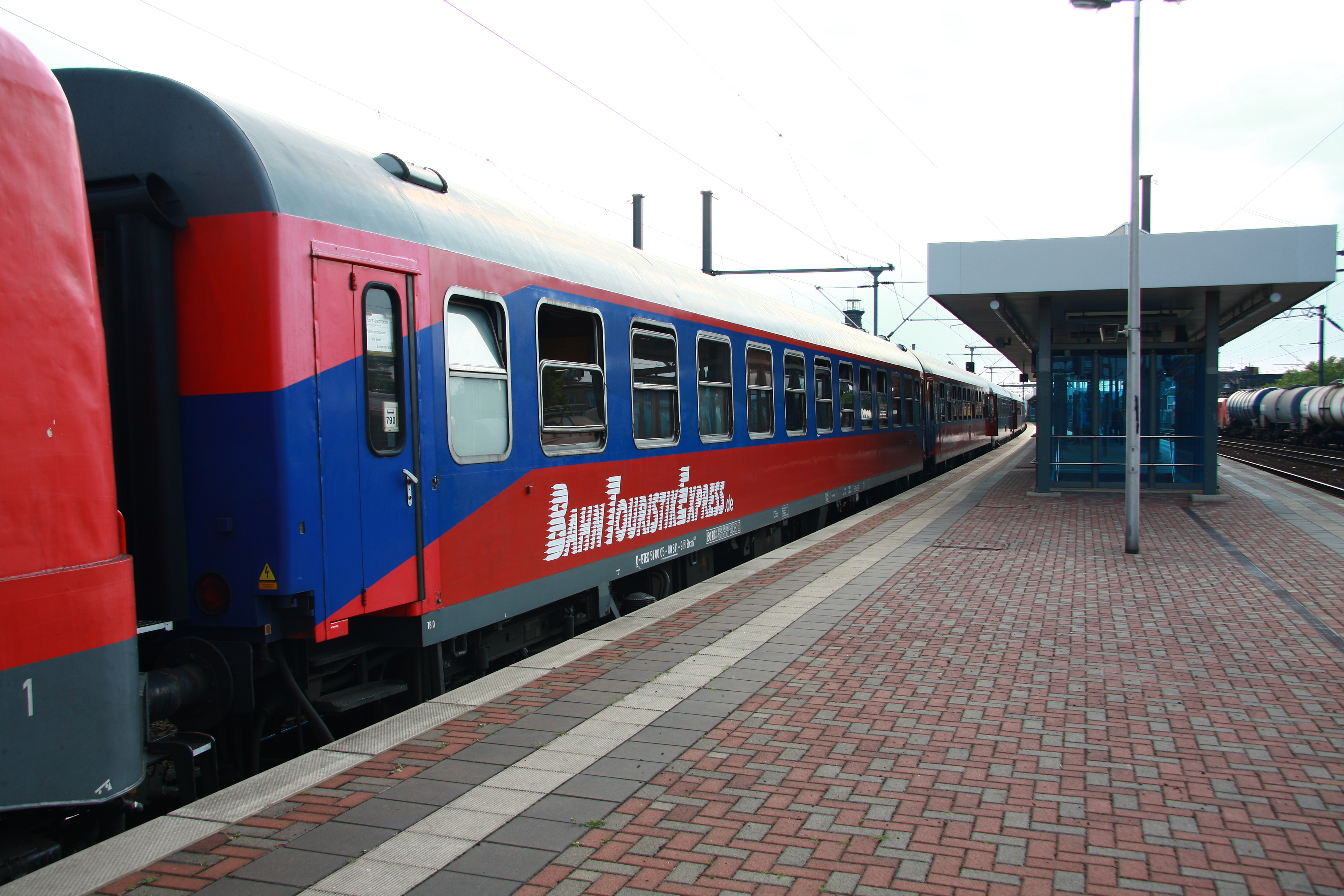 A train of the private railways company Bahn Touristik Express stopping in Köln-Ehrenfeld